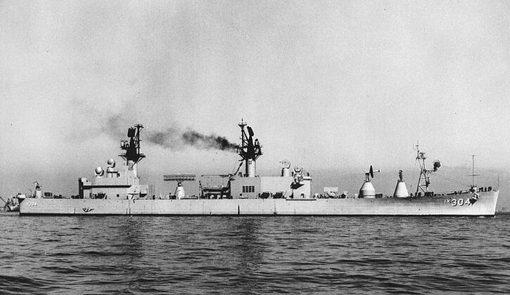 USS Atlanta (IX-304) off the San Francisco Naval Shipyard, California, following conversion to a weapons effects test ship, circa late 1964.